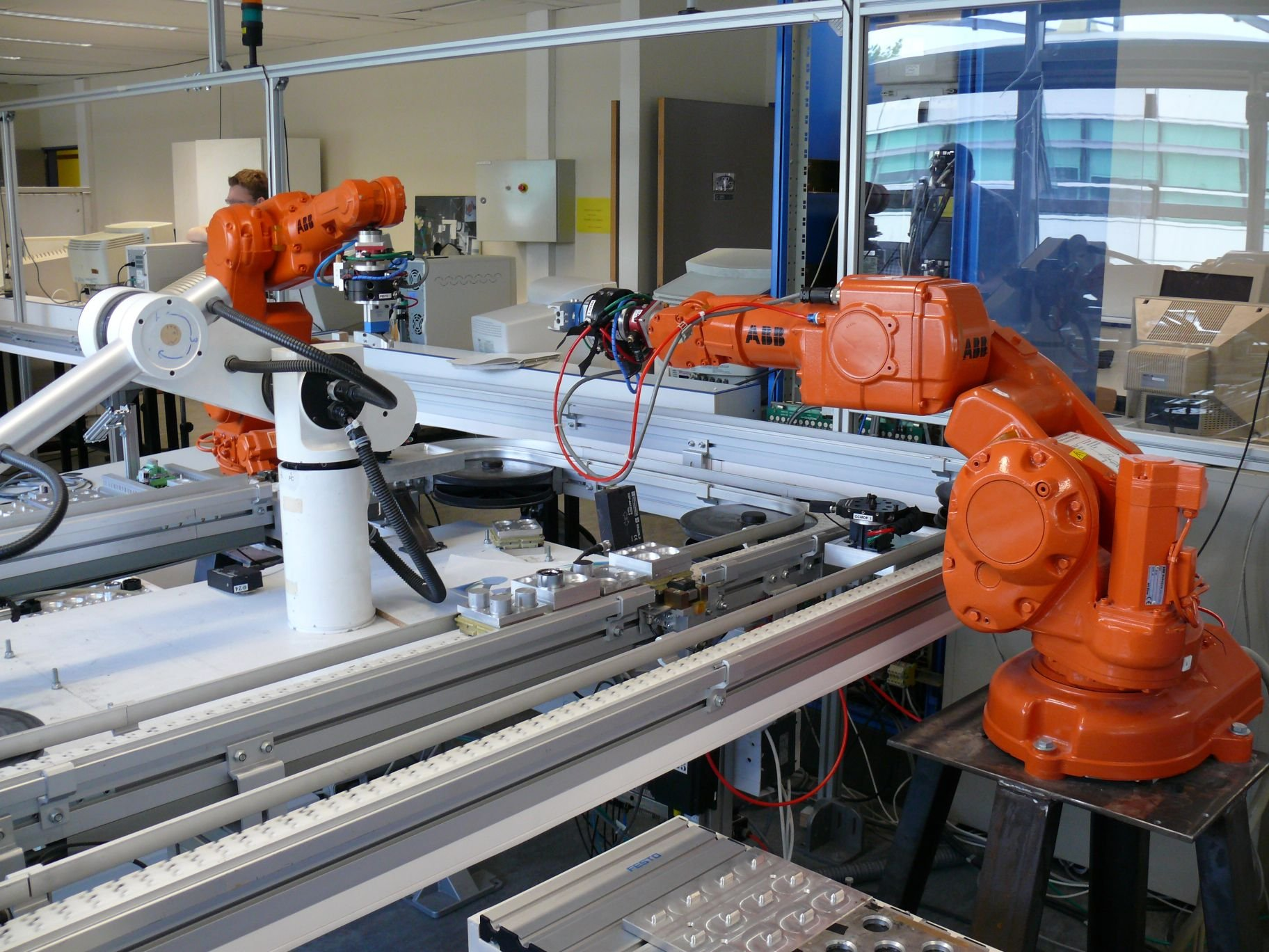 ABB industrial robot in Villeneuve-d'Ascq (Nord-Pas-de-Calais, France).